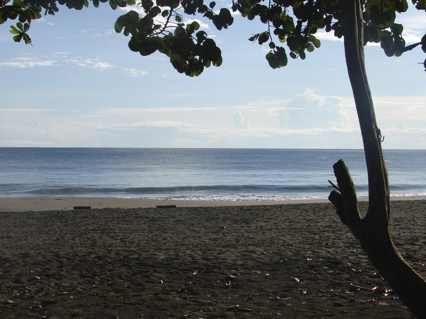 Playa Negra in Puerto Viejo de Talamanca in Limón Province, Costa Rica